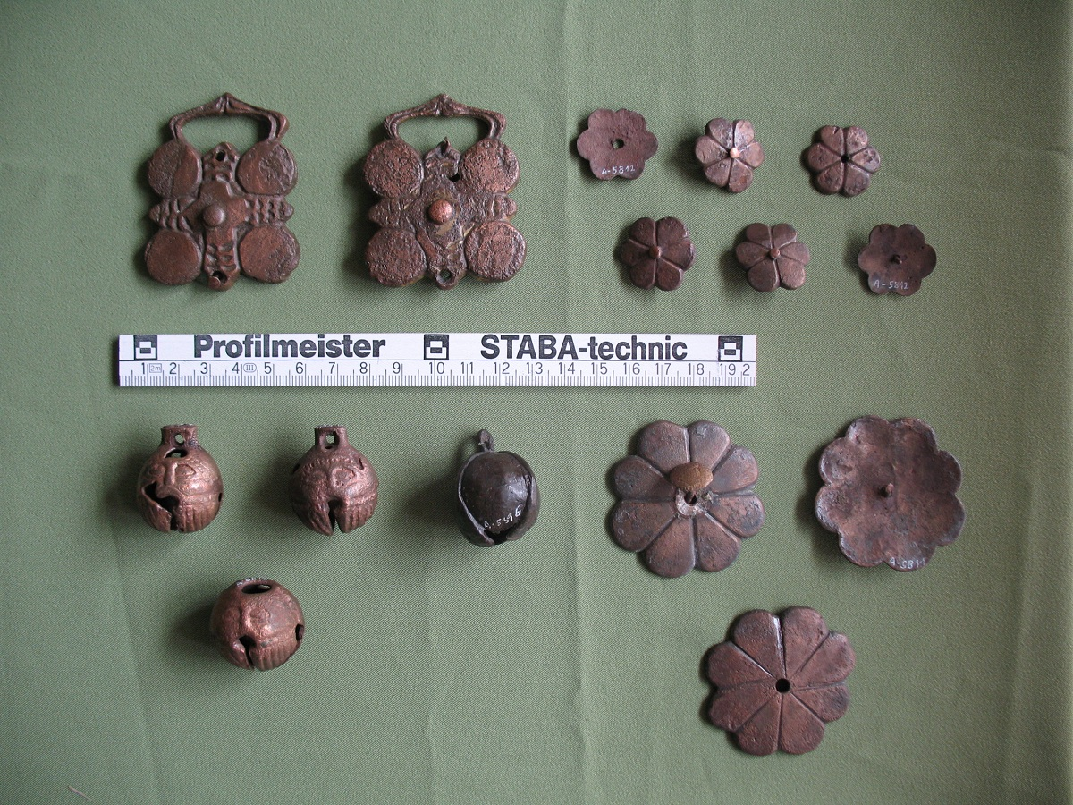 Some finds from Komárno IX Lodenica